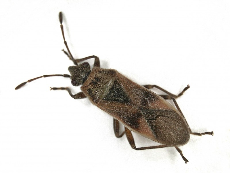 Arocatus longiceps (Lygaeidae) - (imago), Nijmegen - Heijendaal, the Netherlands